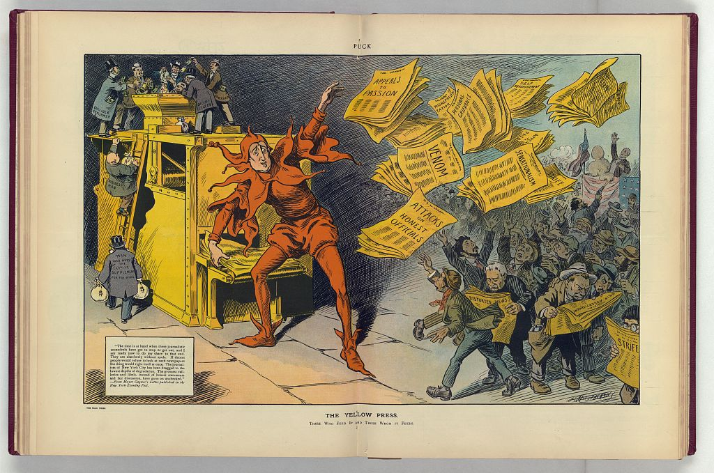 The Yellow Press, by L.M. Glackens. Illustration shows William Randolph Hearst as a jester tossing newspapers with headlines such as "Appeals to Passion, Venom, Sensationalism, Attacks on Honest Officials, Strife, Distorted News, Personal Grievance, [and] Misrepresentation" to a crowd of eager readers, among them an anarchist assassinating a politician speaking from a platform draped with American flags; on the left, men labeled "Man who buys the comic supplement for the kids, Businessman, Gullible Reformer, Advertiser, [and] Decent Citizen" carry bags of money that they dump into Hearst's printing press. Includes note: "The time is at hand when these journalistic scoundrels have got to stop or get out, and I am ready now to do my share to that end. They are absolutely without souls. If decent people would refuse to look at such newspapers the whole thing would right itself at once. The journalism of New York City has been dragged to the lowest depths of degradation. The grossest railleries and libels, instead of honest statements and fair discussion, have gone unchecked."-- From Mayor Gaynor's letter published in the New York Evening Post.